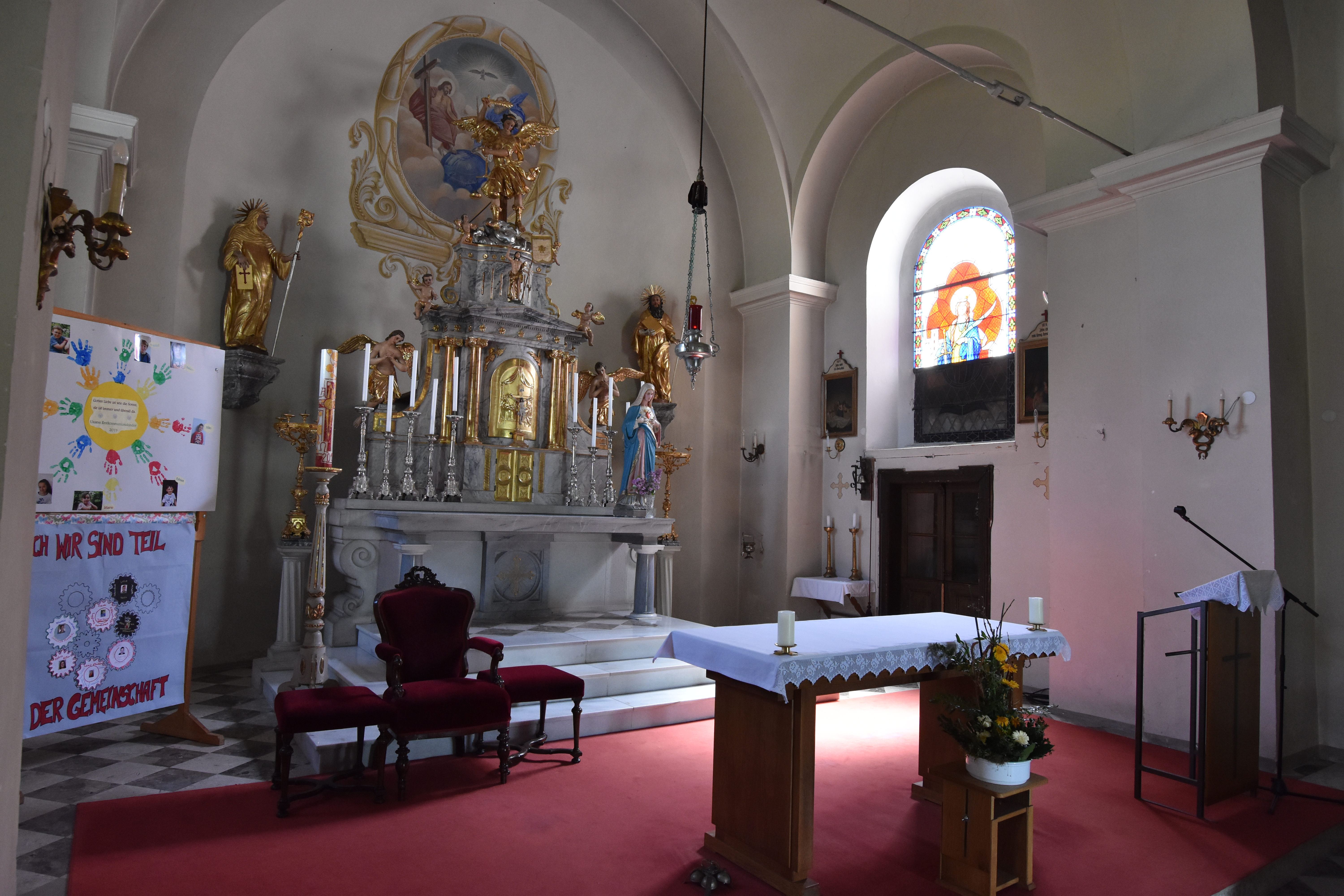 Church hl. Michael (Spielfeld) - Interior